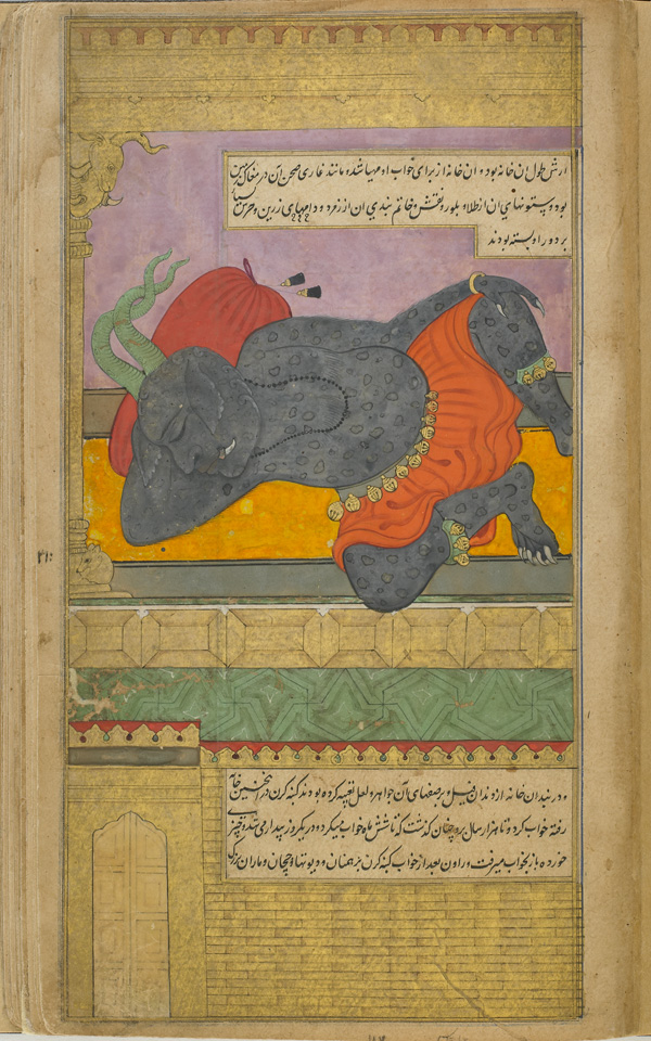 Folio from the Ramayana of Valmiki (The Freer Ramayana), Vol. 2, folio 295; recto: Kumbhakarna, tricked by the gods into asking Brahma for the boon of interminable sleep, slumbers in the magnificent dwelling prepared for him at Ravana's order; verso: text 1597-1605